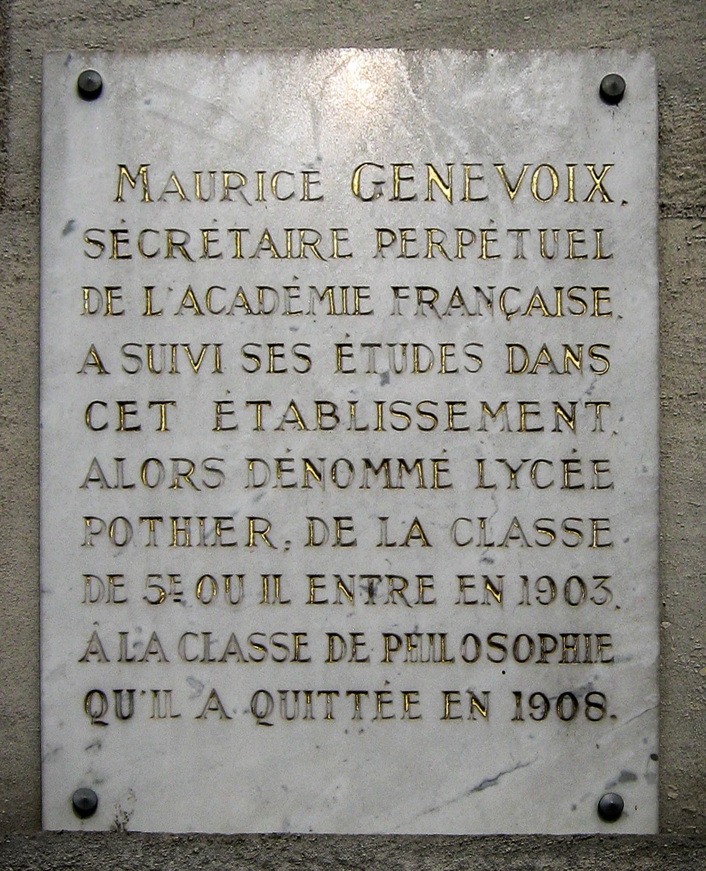 Plaque remembering Maurice Genevoix, French novelist, winner of the Prix Goncourt in 1925, perpetual secretary of the Académie française, on the façade of former Collège Bailly (now closed), where stood before lycée Pothier, in Orléans.